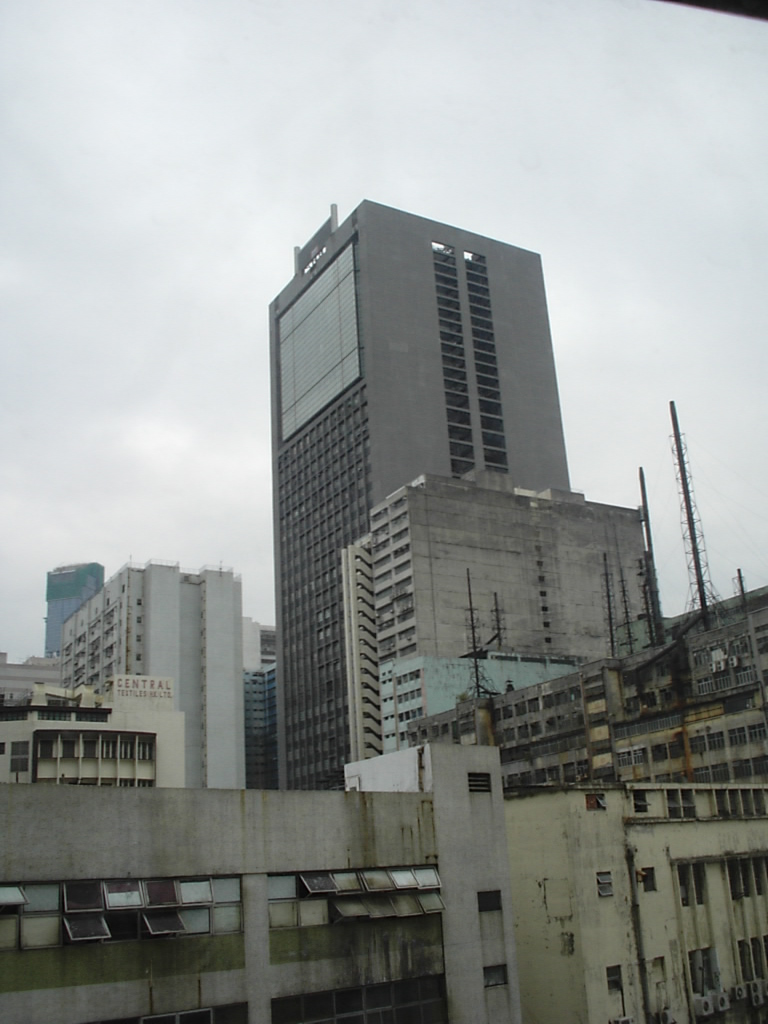 Wharf Cable TV Tower, Hong Kong